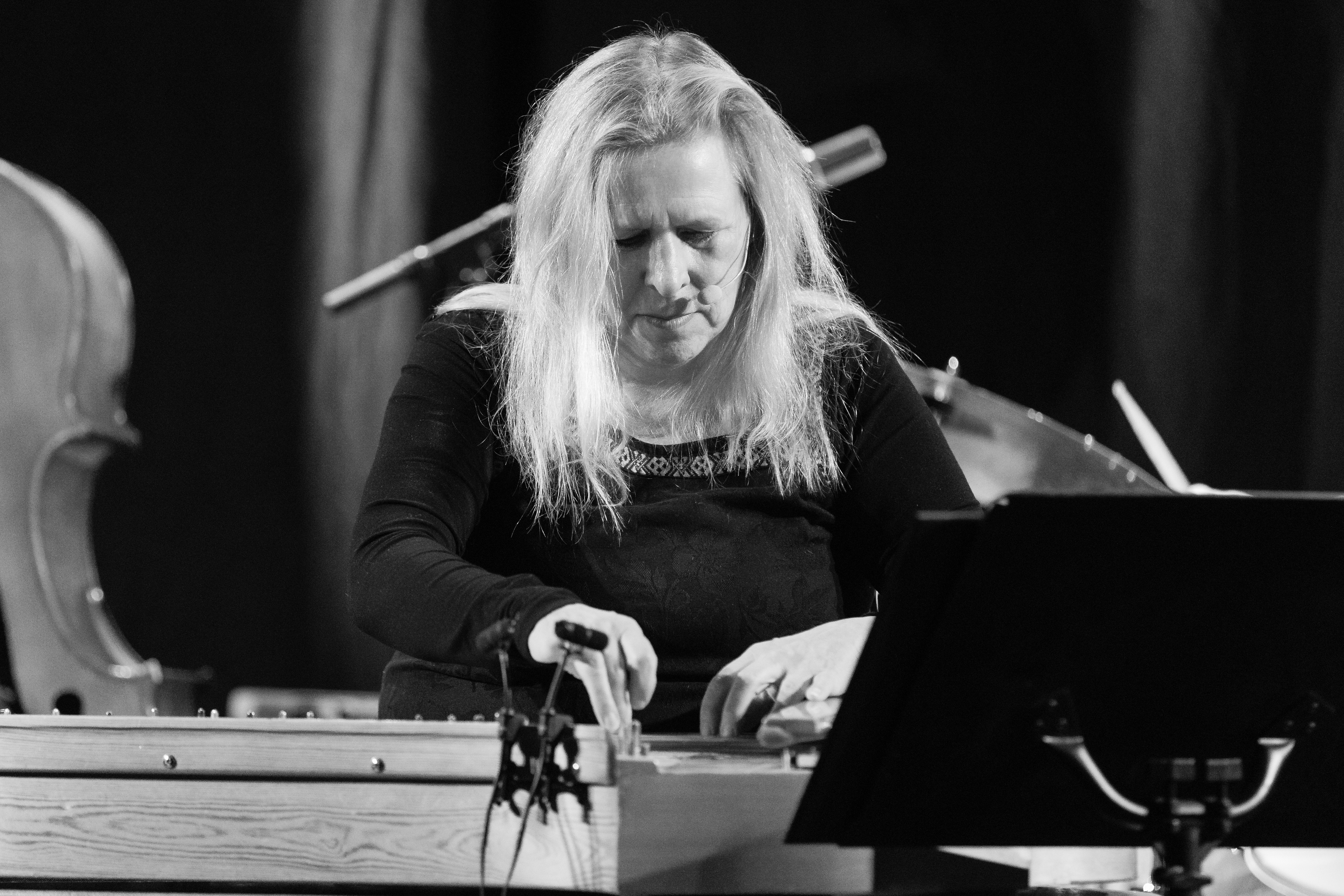 Sinikka Langeland at Thon Hotel Jølster. The concert was part of Jazz på Jølst and took place on 30. December 1899 in Jølster. Lineup:Sinikka Langeland (kantele and vocal)Eivind Nordset Lønning (trumpet)Trygve Seim (saxophone)Maja Ratkje (electronic and organ)Mats Eilertsen (double bass)Markku Ounaskari (drums)